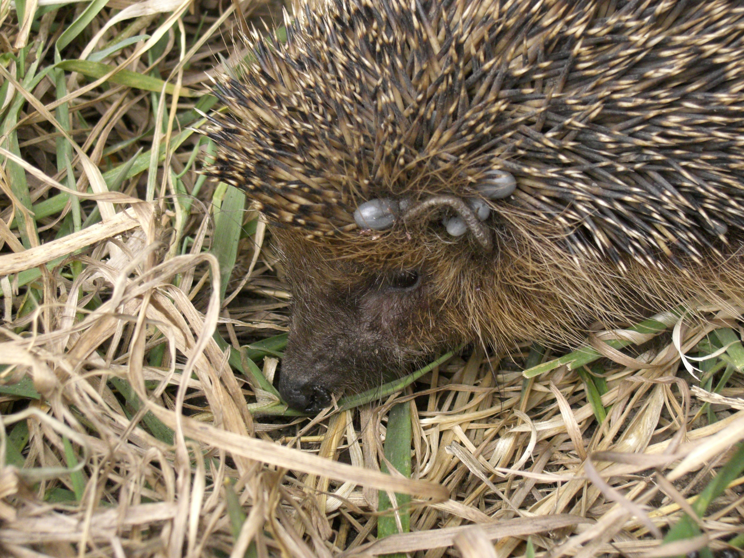 Few Ixodidaes on hedgehog east.